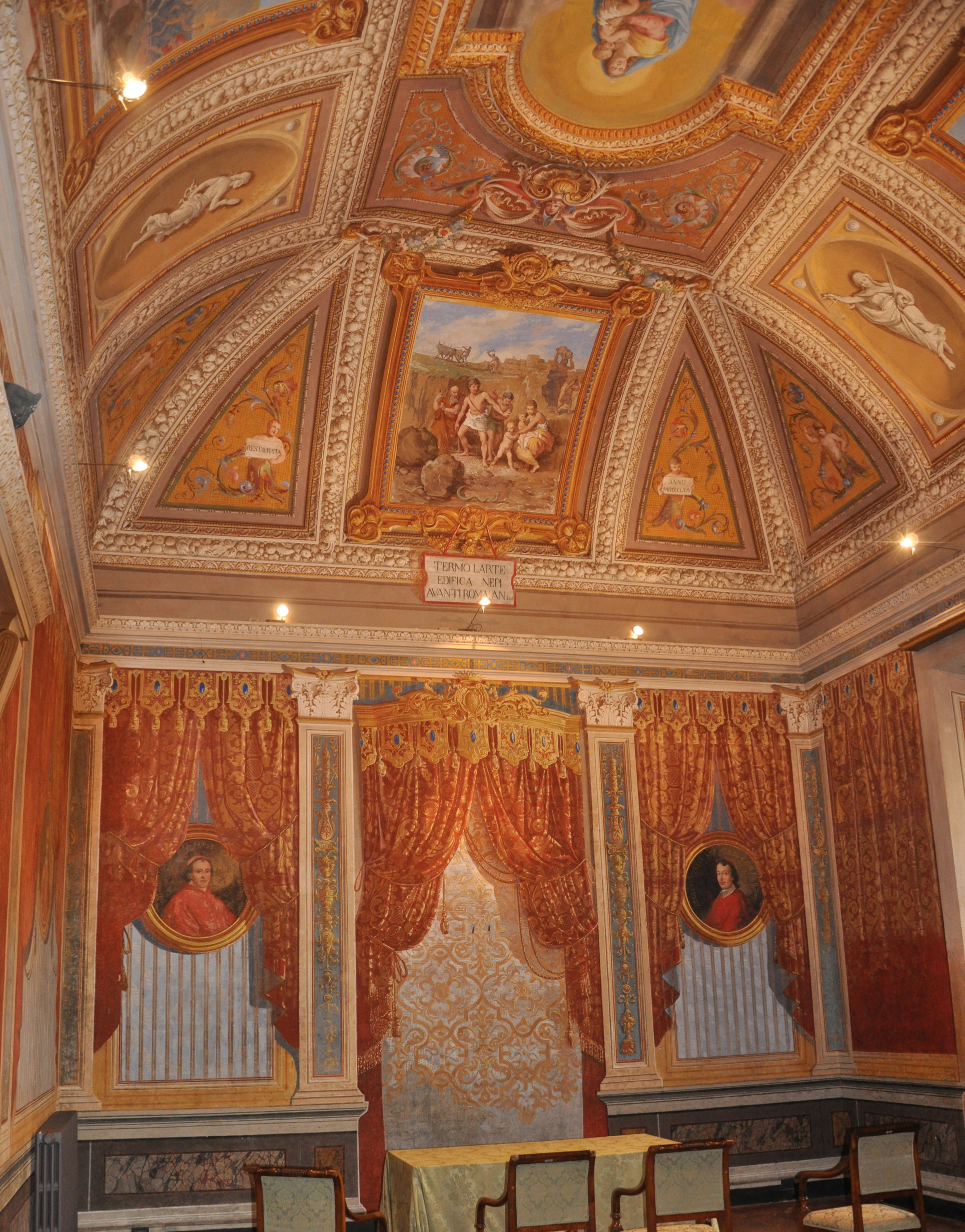 The Noble hall of the town hall of Nepi, decorated in 1870 by Domenico Torti e Ludovico De Mauro